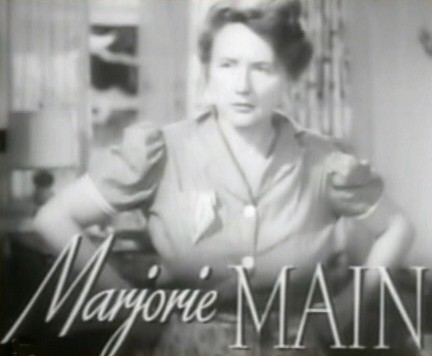 Cropped screenshot of Marjorie Main from the trailer for the film The Women.